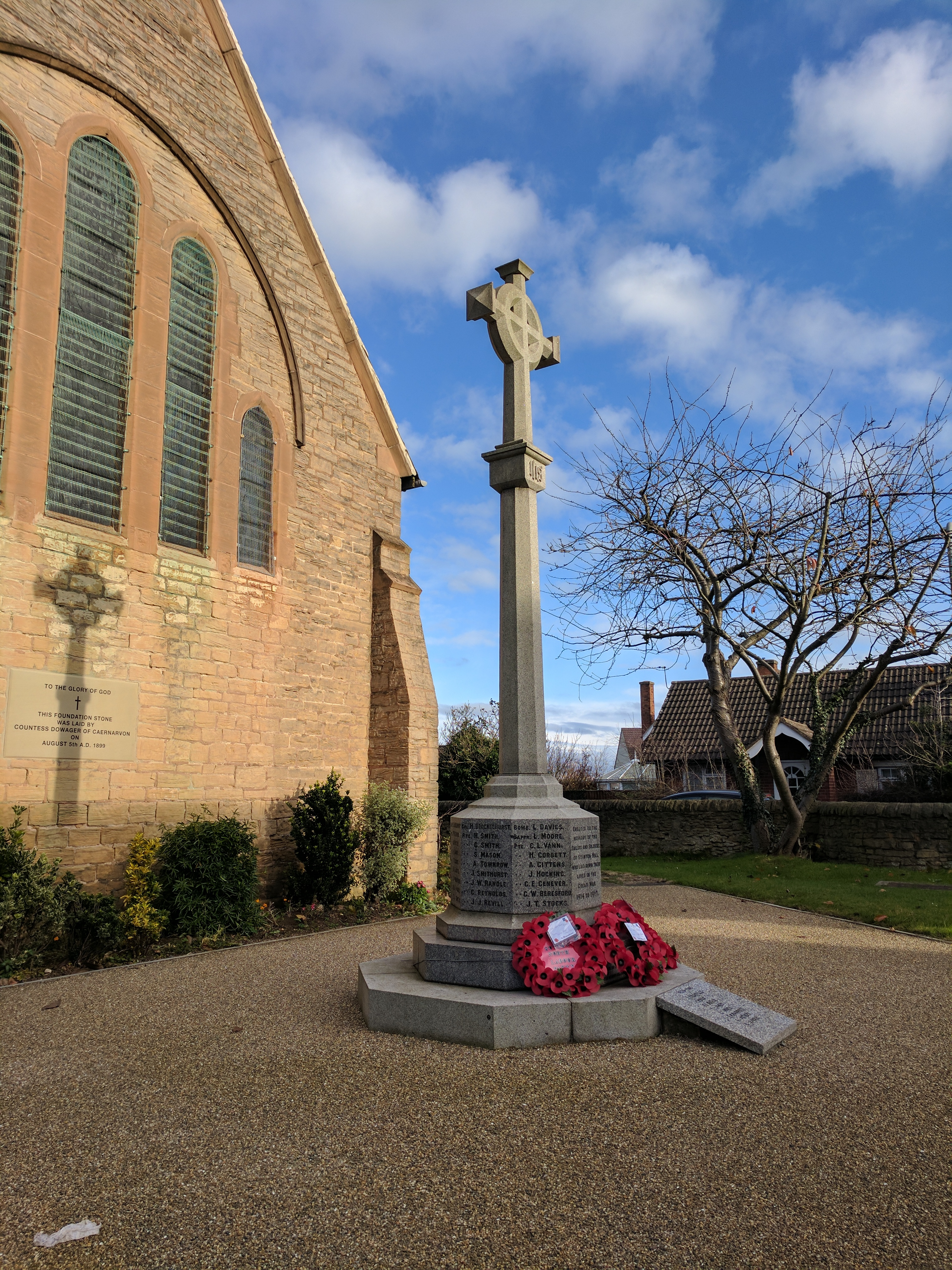 Stanton Hill War Memorial Wikidata has entry Q26677725 with data related to this item.